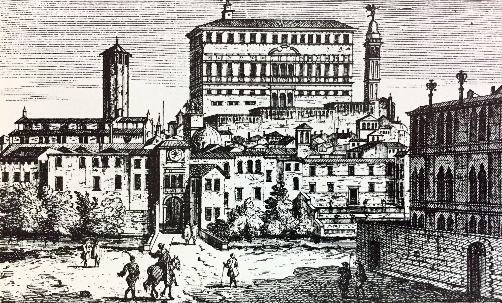 Porta Aquileia Interna